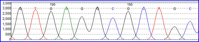 A Trace of a given DNA sequence